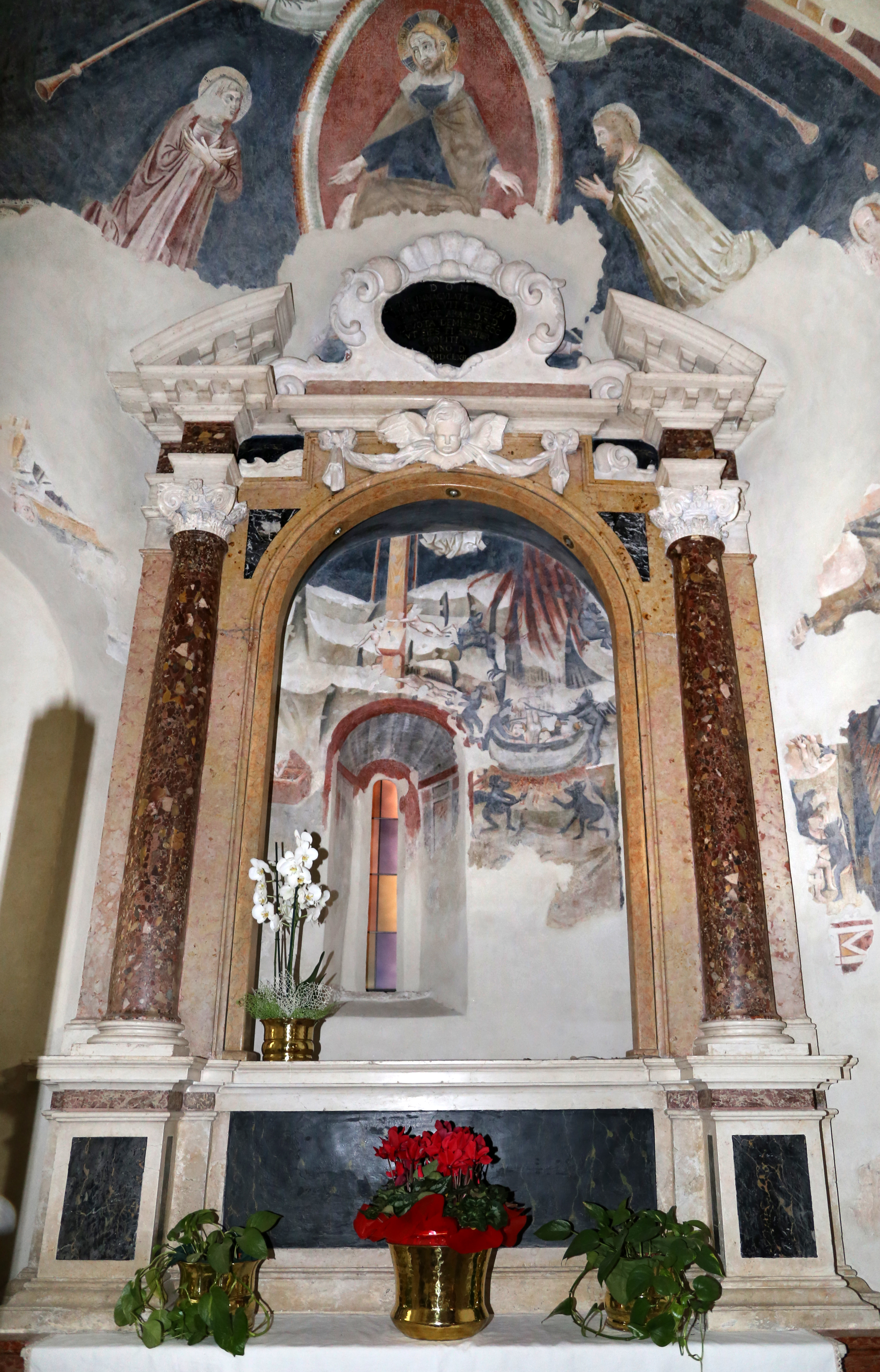 Santissima Trinità (Verona)